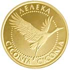 Coin of Ukraine